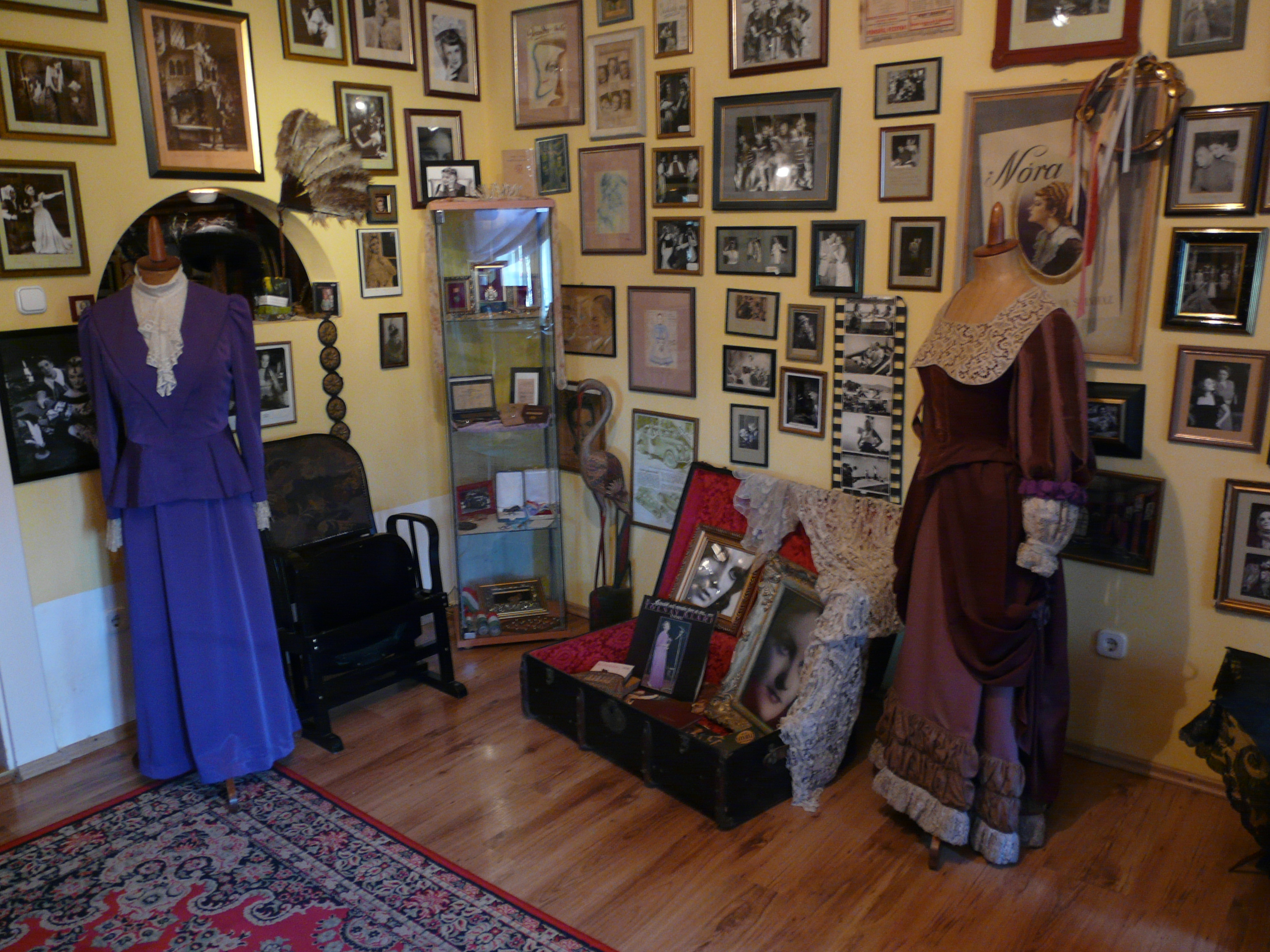 Room interior in Klári Tolnay Memorial House, village Mohora, Hungary (2019)